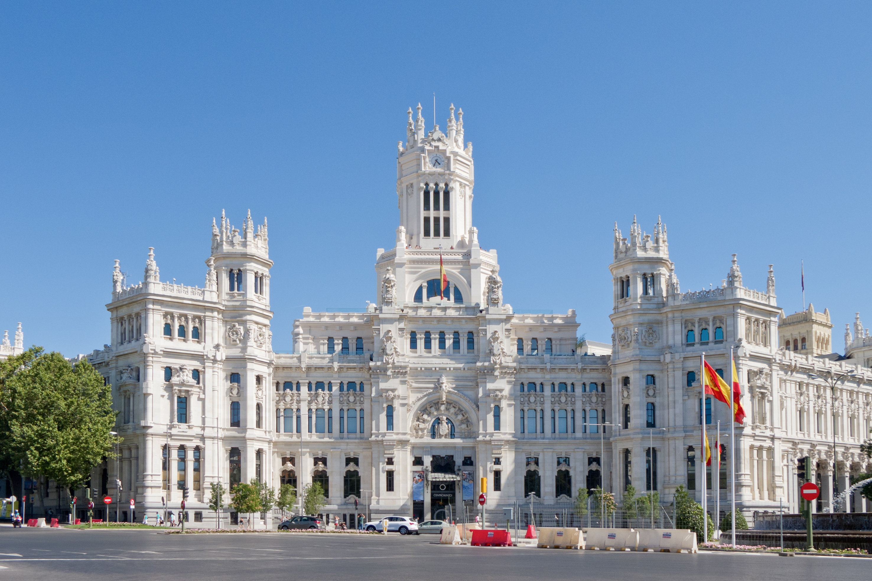 Palace of Communication, Madrid, Spain.